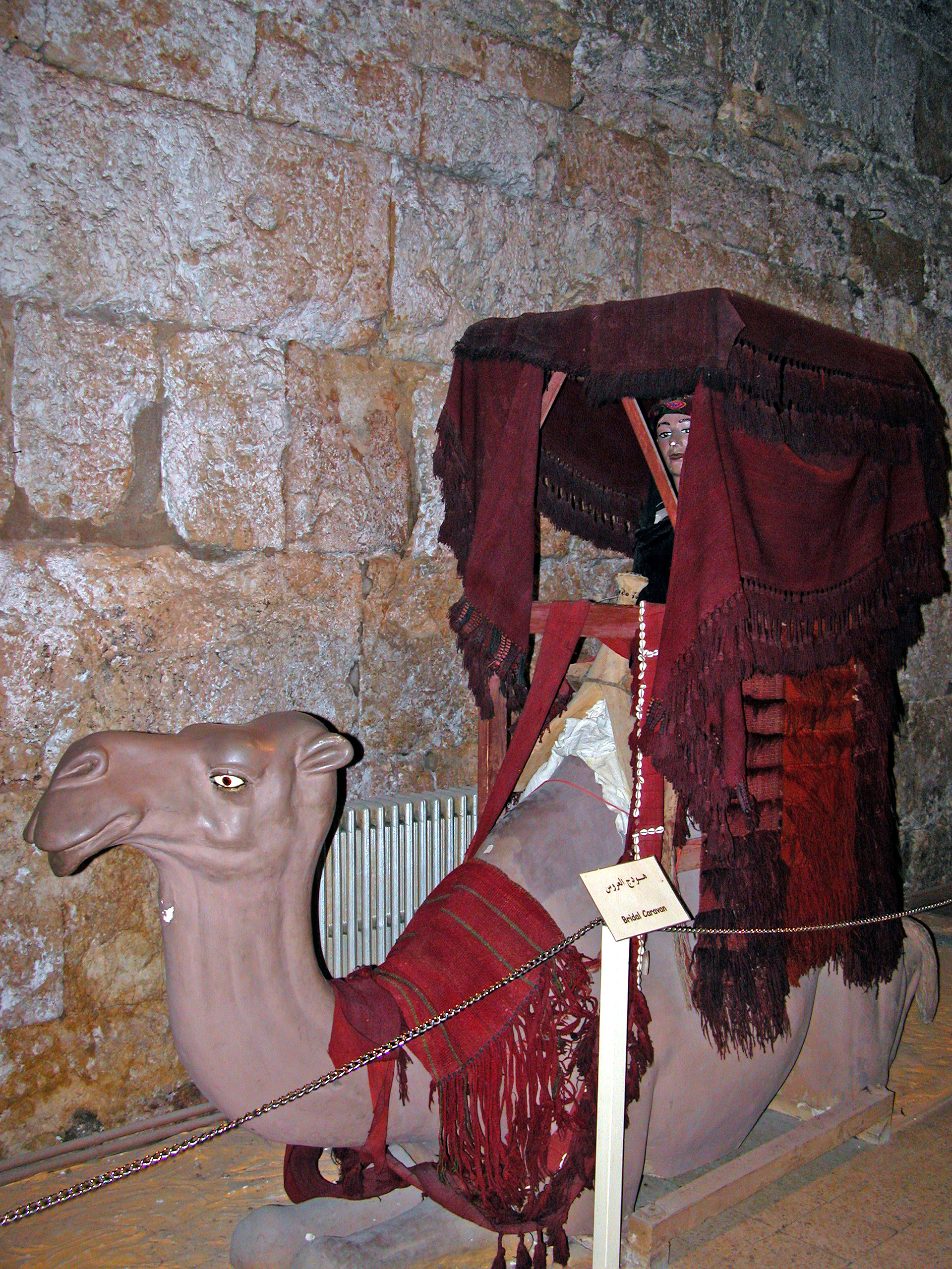 At each end of the Roman theatre are museums that show traditional things in Jordan. Amman, Jordan